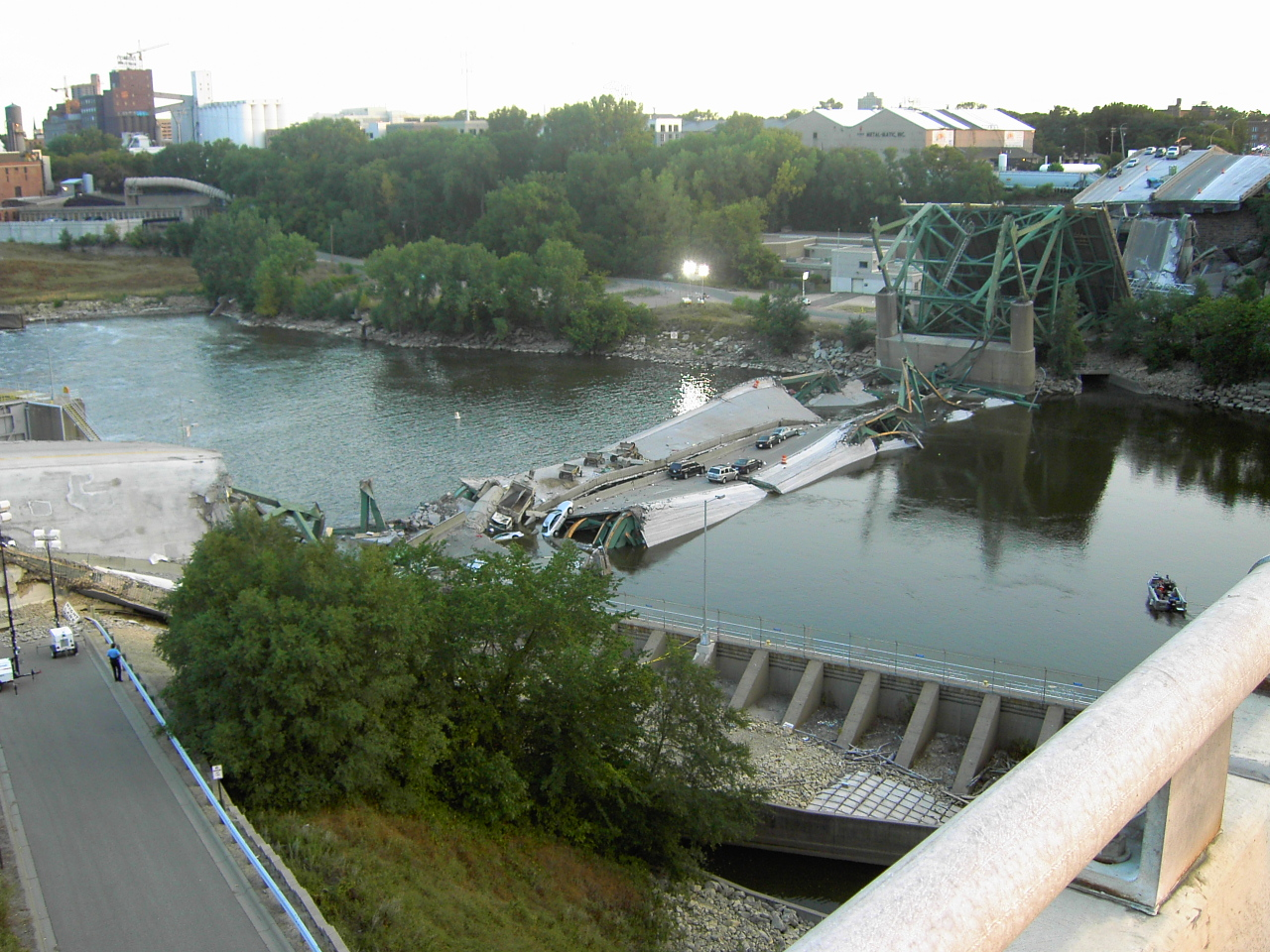 The scene at the I-35W Mississippi River Bridge, the first morning after its collapse.